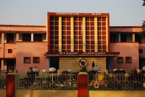 Bitsindri